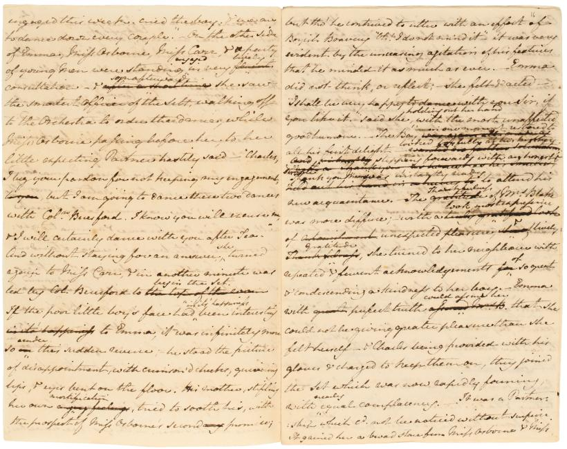 Adjacent pages of Jane Austen's manuscript of her unfinished novel, The Watsons. It contains the description of the ball at the start, where Emma dances with Charles Bates